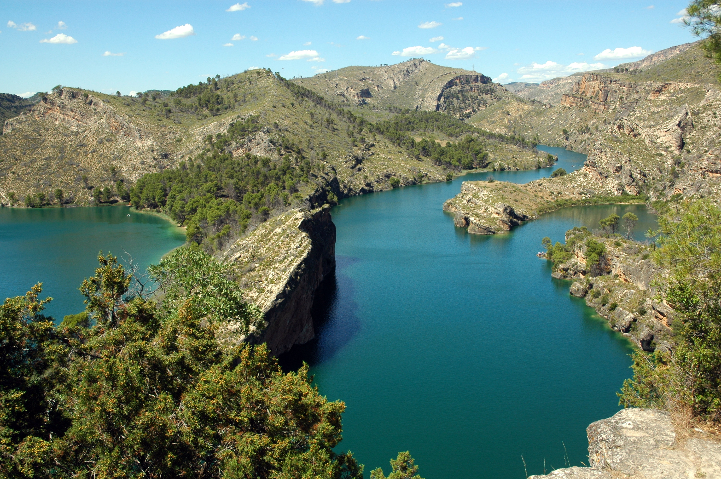 Bolarque reservoir, in La Alcarria (Guadalajara and Cuenca, Spain).